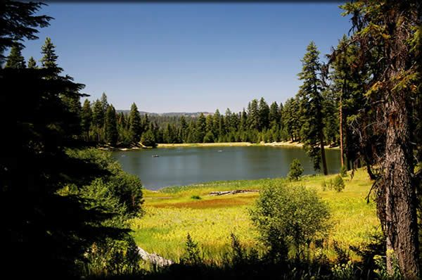 Walton Lake located in the Ochoco National Forest in central Oregon